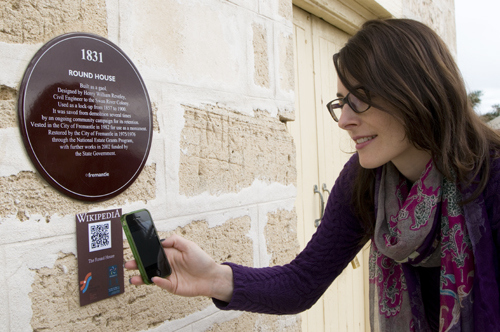 A QRpedia example of application at the Round House in Fremantle, Australia.